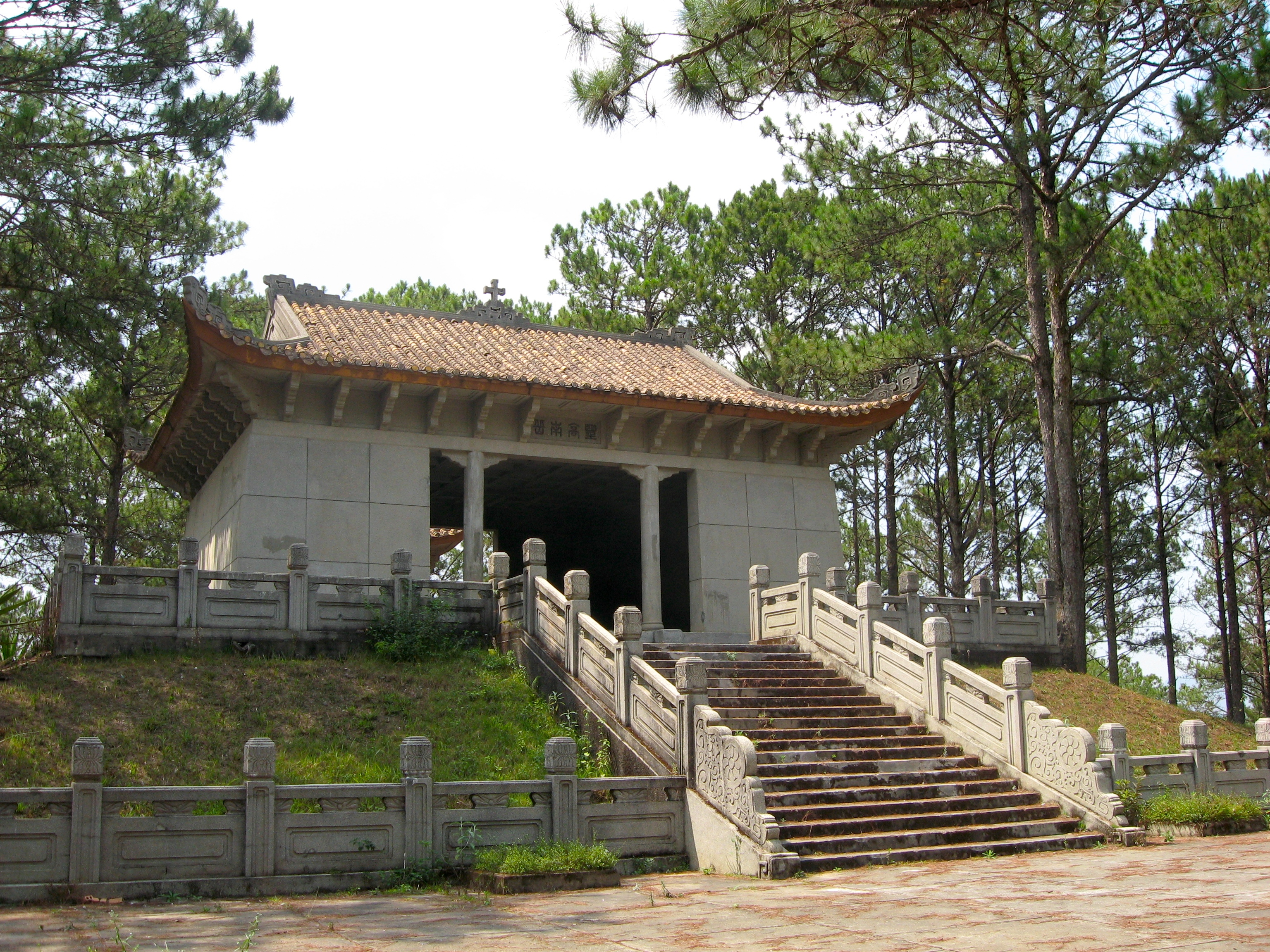 Nguyen Huu Hoa Mausoleum